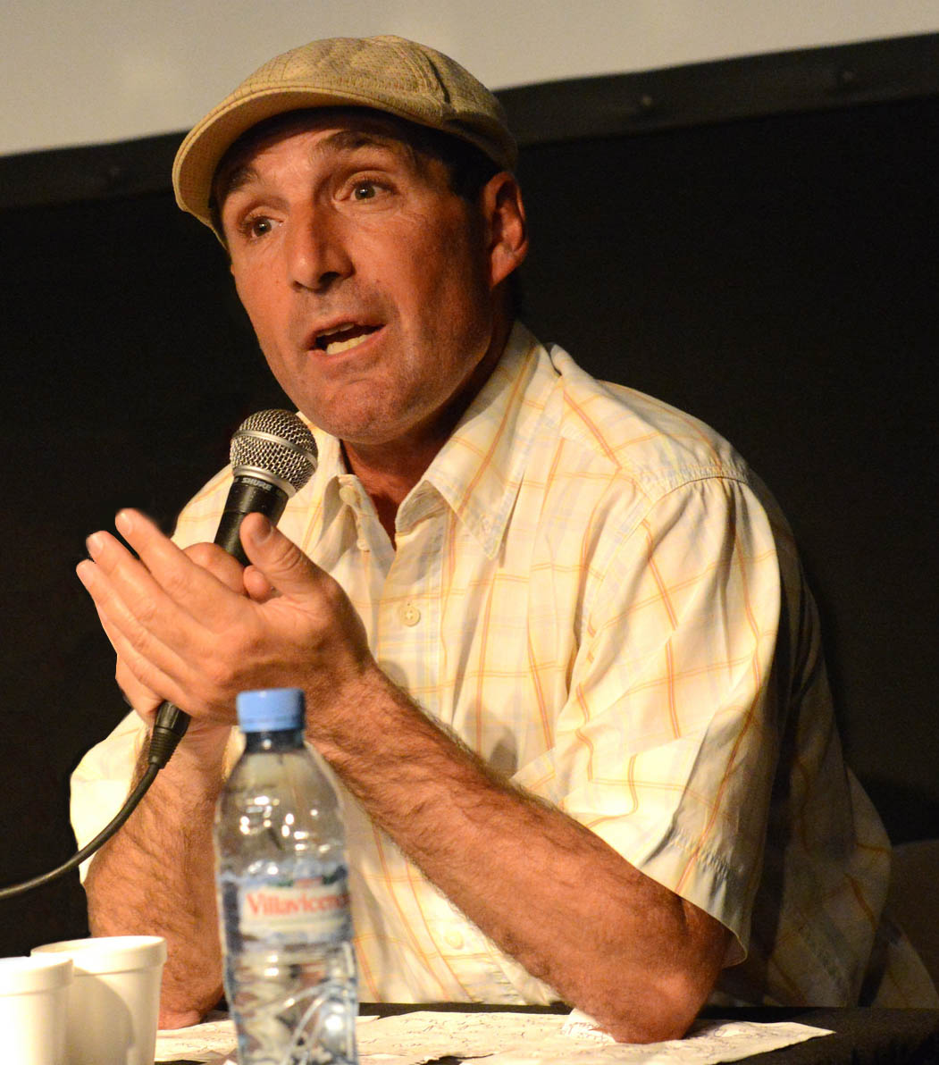 Sergio "Cachito" Vigil during a coloquial conference at Tecnópolis, Villa Martelli, Buenos Aires.